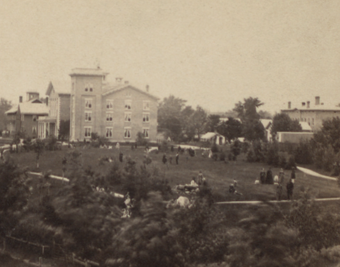 Land of Oneida community